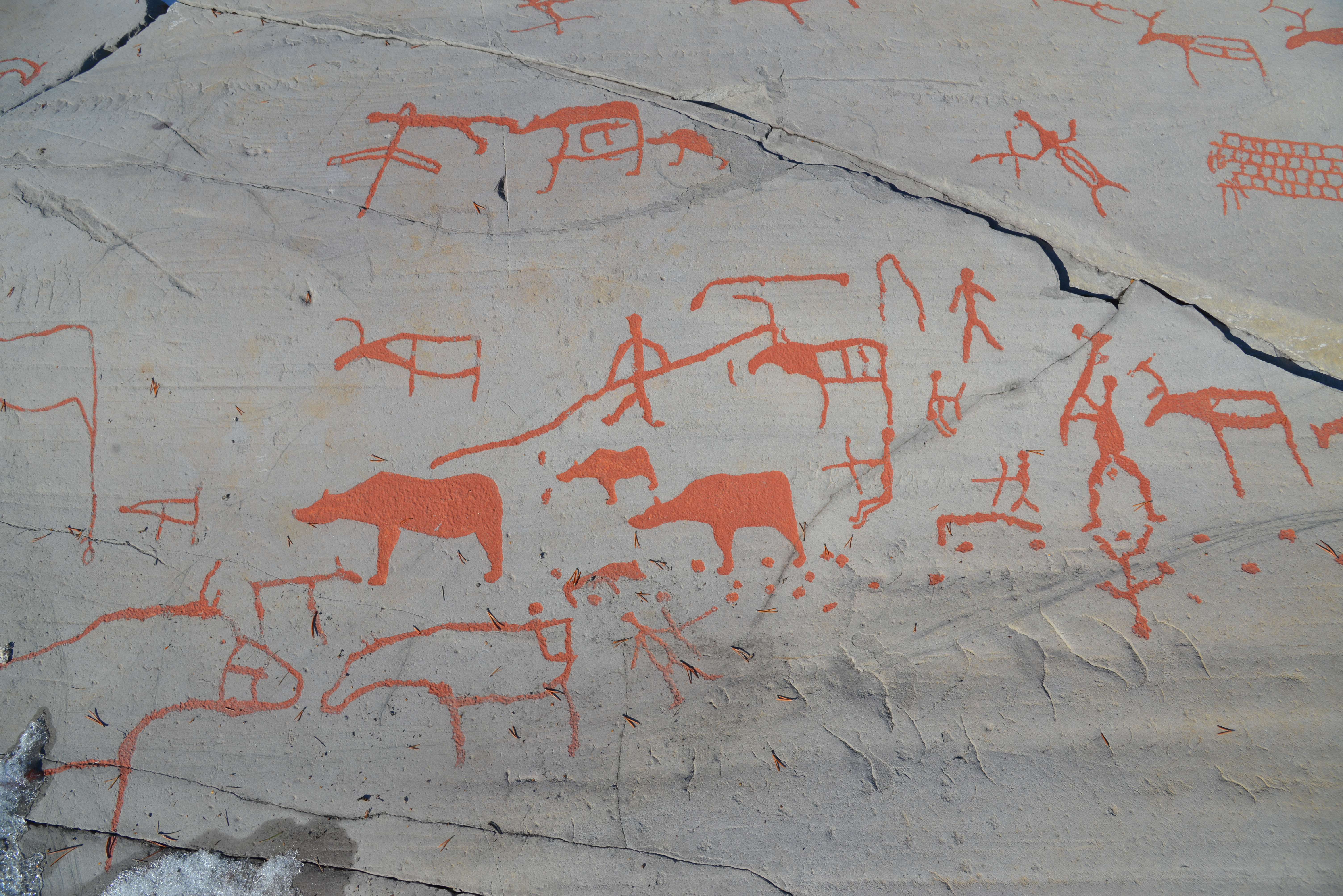 A bearhunting scene carved in the bedrock in Alta approx. 7000 years ago.